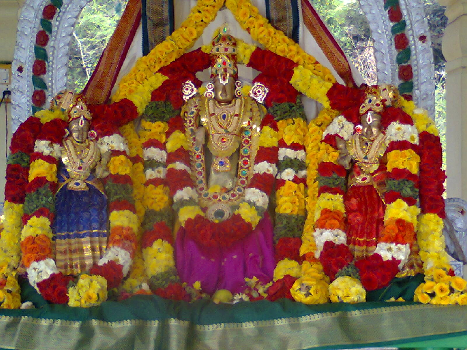 Sri ThenVenkatachalapthy Temple vurchavar